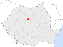 Location of Târgu Mureș in Romania.